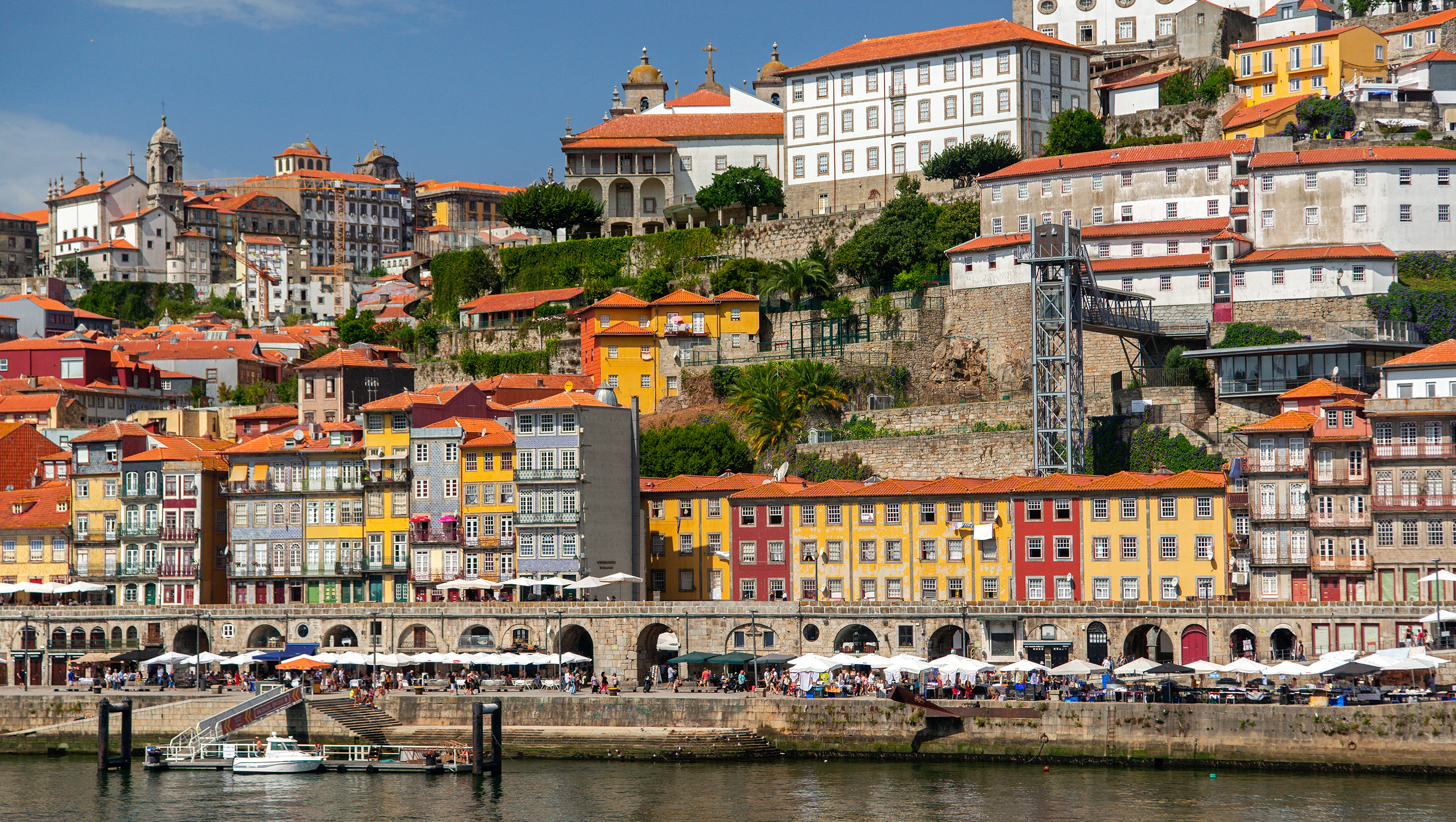 Ribera area along the river Duoro, Porto, Portugal, 2019, includes both homes and businesses catering to tourists